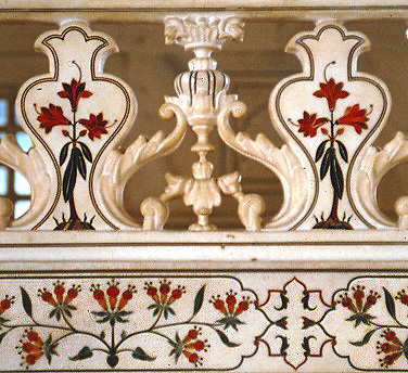 Details from the Jali screen, inlaid with precious and semi-precious stone. Courtesy: From email correspondence: Yes. I own all the images which are from my website: Explore the Taj Mahal Regards, William Donelson Armchair Travel Co Ltd